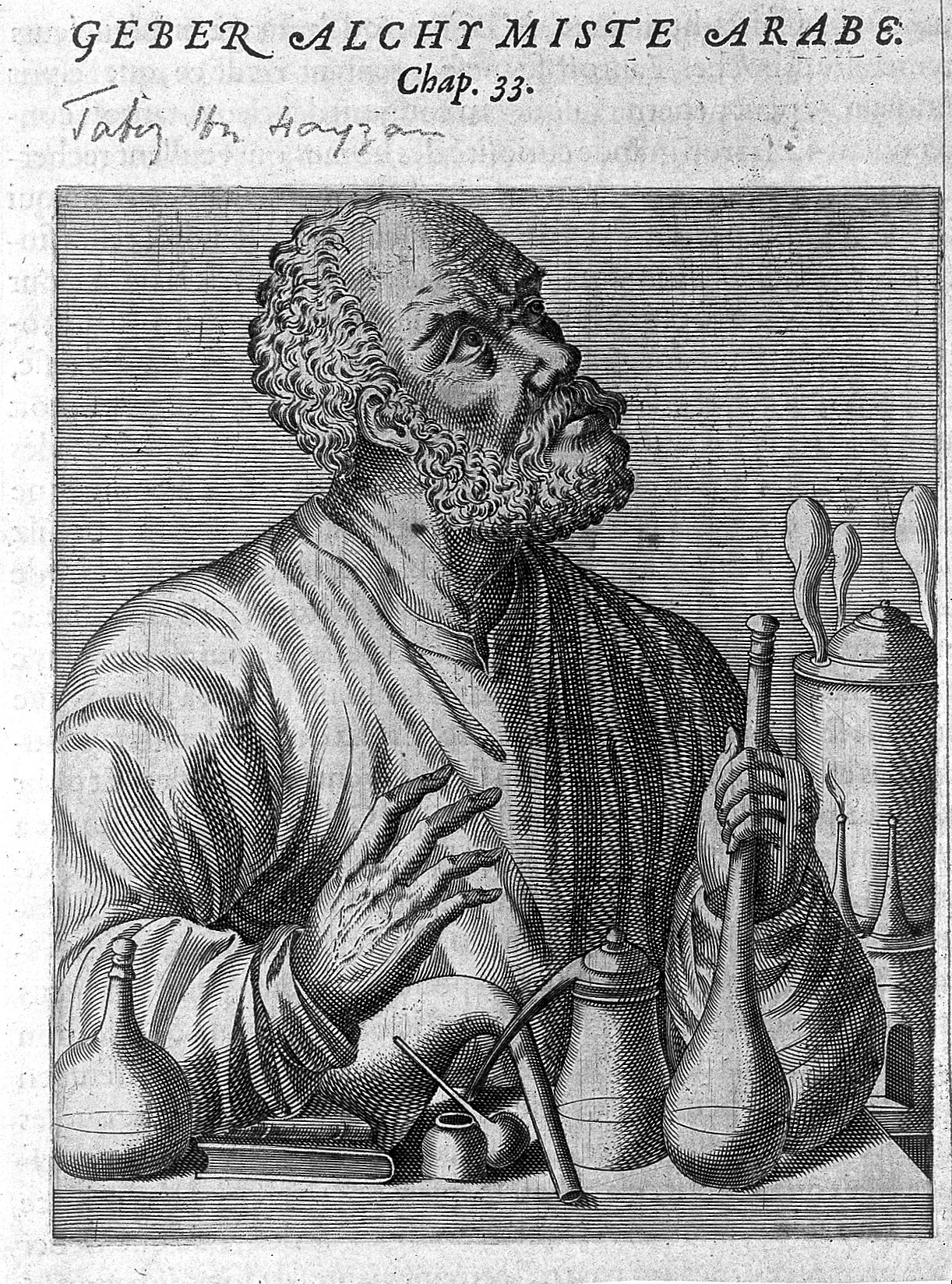 Jabir ibn Hayyan Geber, Arabian alchemist Wellcome Images Keywords: Alchemy; Jabir ibn Hayyan Geber